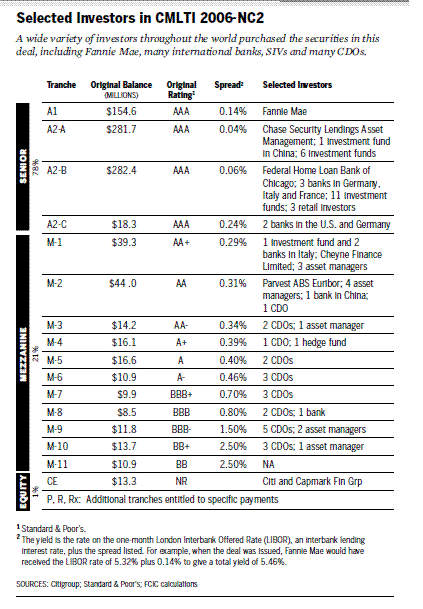 Some of the investors who bought tranches from the 2006 Citigroup "CMLTI 2006-NC2" mortgage-backed security